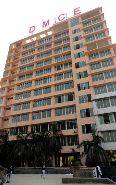 Photograph Of Datta Meghe College Of Engineering,Airoli,Navi Mumbai